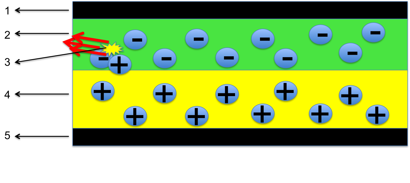 Bilayer OLED illustration